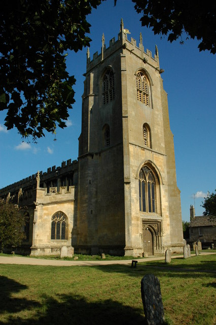 West tower of St Peter's parish church, Winchcombe, Gloucestershire, seen from the northwest. The gilded weathercock was brought here from St Mary's parish church, Radcliffe, Bristol in 1874.